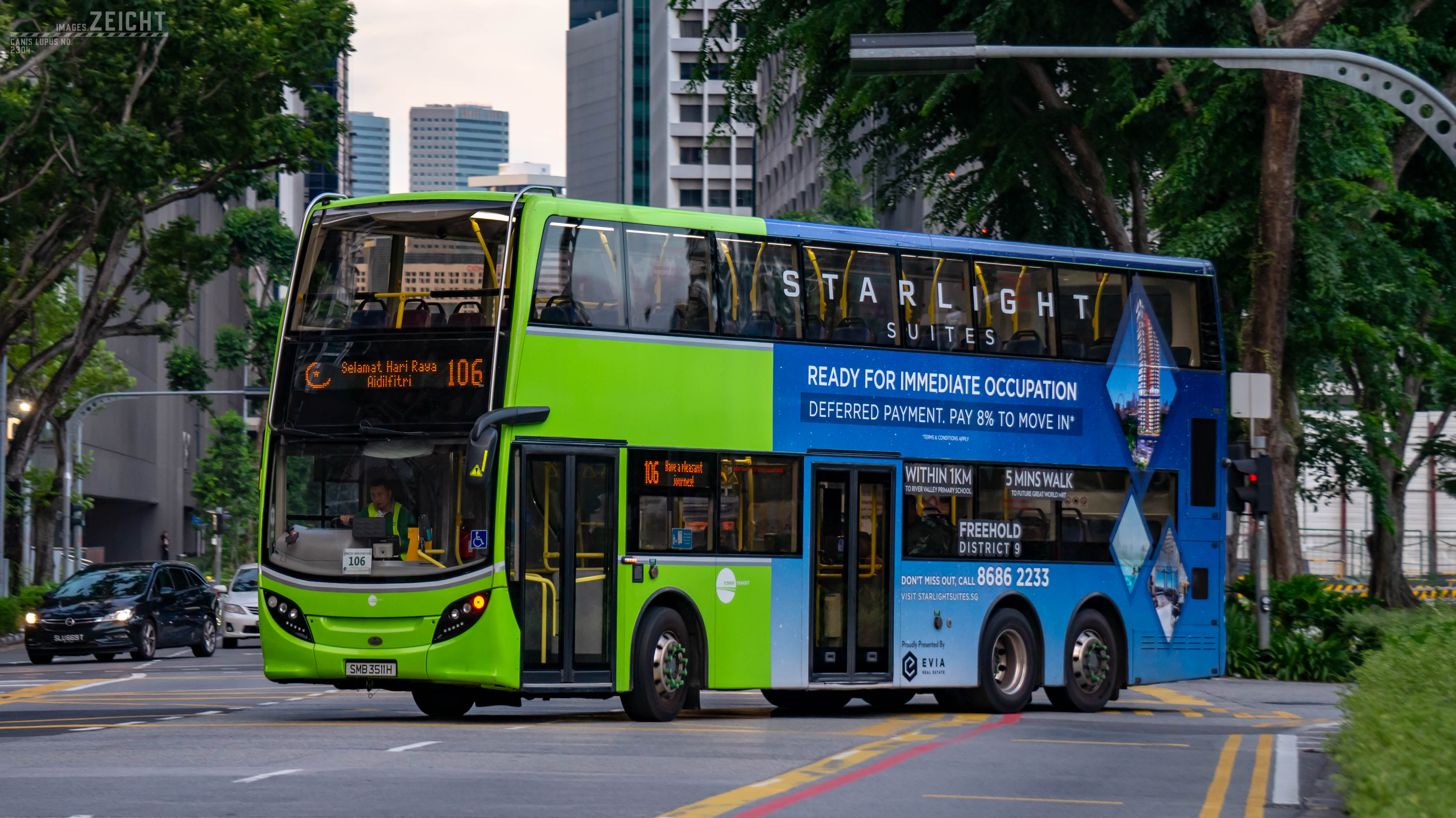 SMB3511H - 106 Starlight Suites.